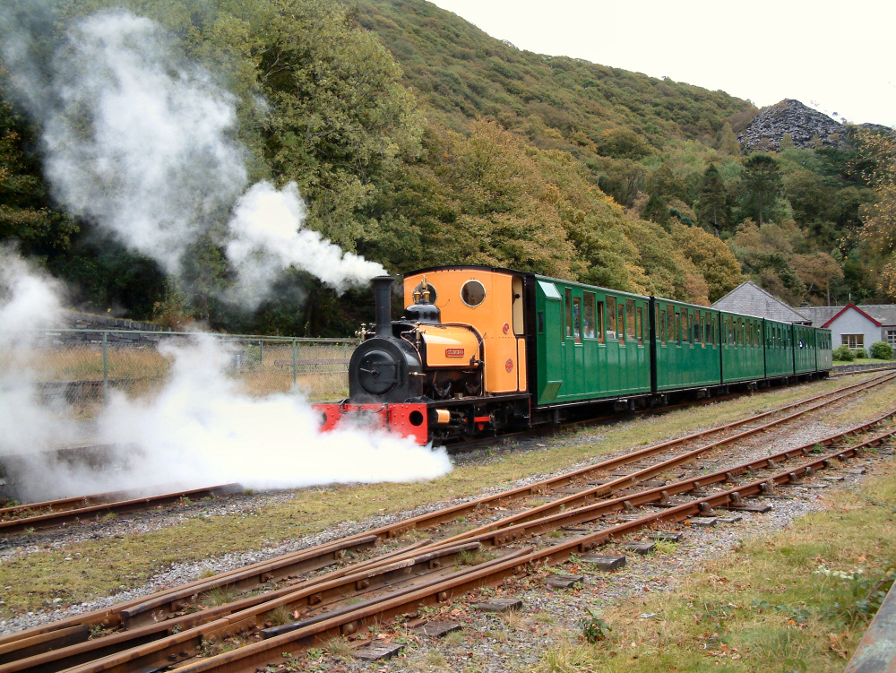 Llanberis Lake Railway Dollbadarn preparing to depart from the Gilfach Ddu station when that station was the terminus before the line was extended to Llanberis.